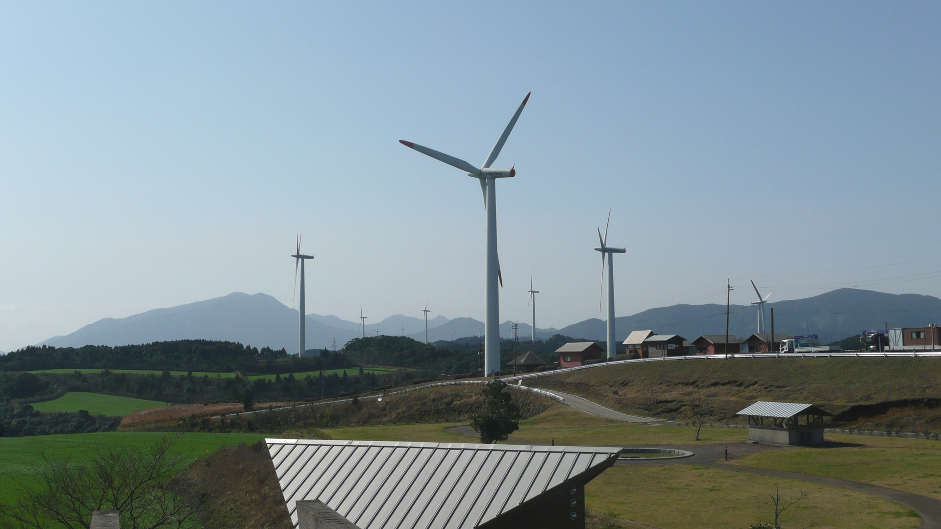 Kihoku Wind Farm (Kihoku, Kanoya City, Kagoshima, Japan)